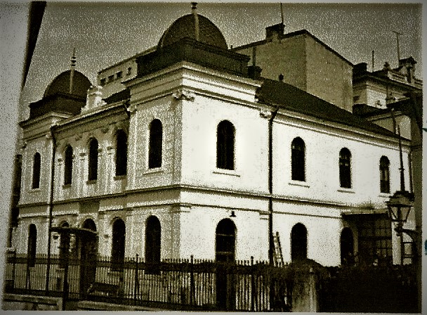 Spanish Small Temple, "Ca'al Cicu" synagogue, Temlul Mic Spaniol, located on located on 37 Banu Maracine Street in Bucharest, Romania.